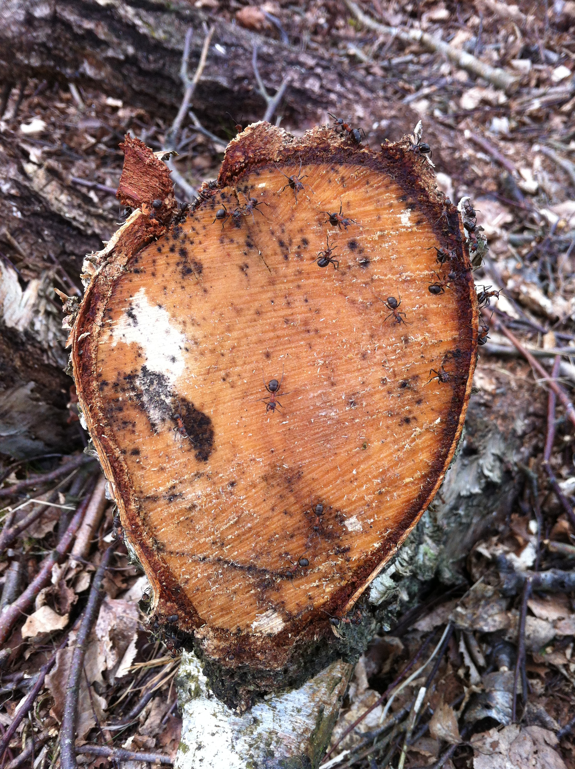 Ants eating sap on a tree stump at Styrsö in Sweden